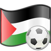 Icon for soccer from Palestine